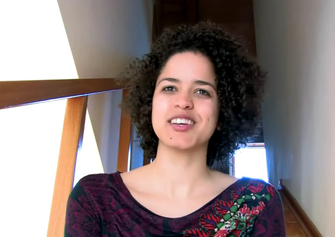 The Angolan singer-songwriter Aline Frazão